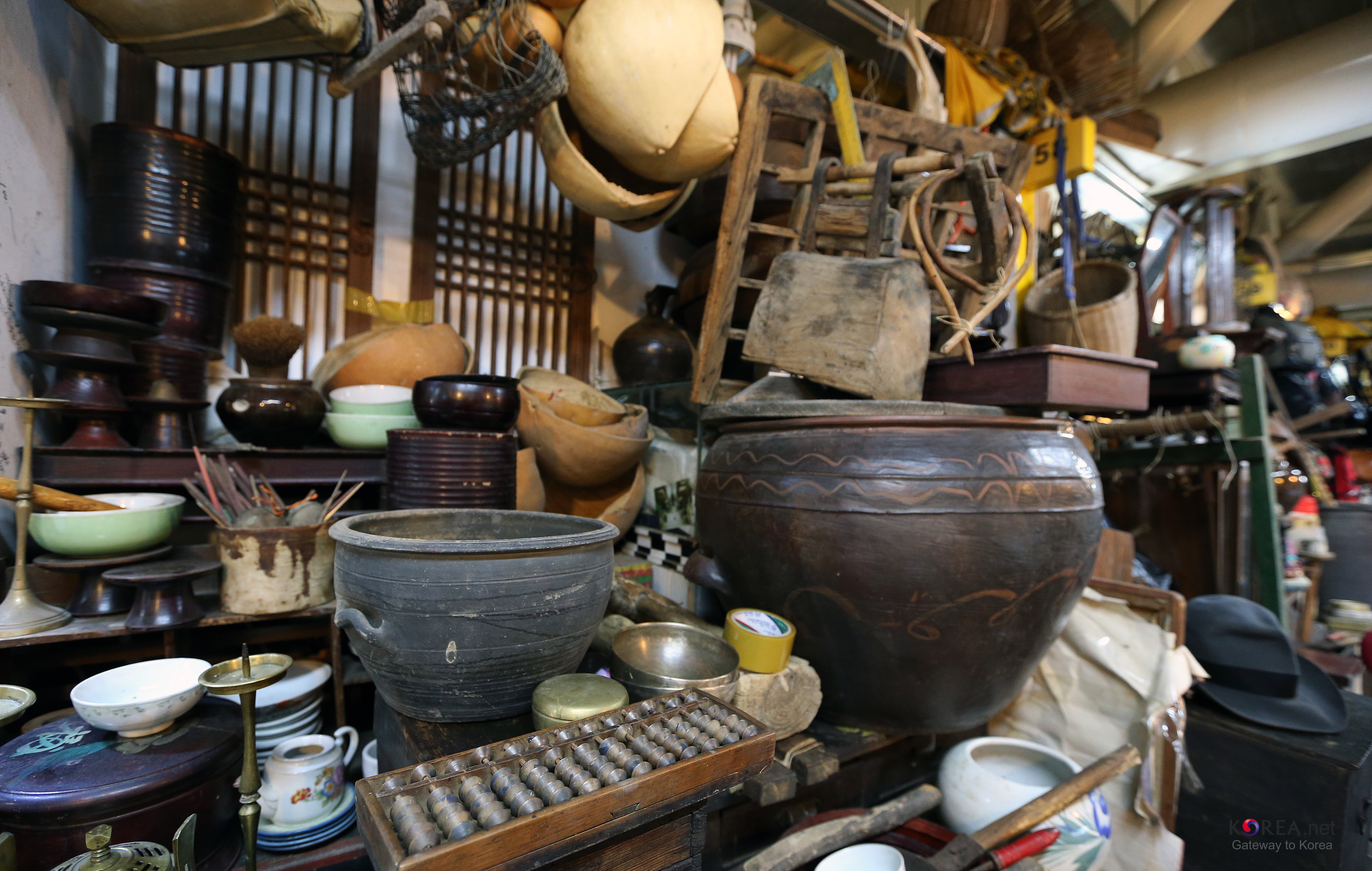 Seoul Folk Flea Market Hwanghak-dong, Jung-gu, Seoul 2013.04.10. ( an Article about Seoul Folk Flea Market) A journey back in time at Seoul Folk Flea Market Ministry of Culture, Sports and Tourism Korean Culture and Information Service Newsroom Jeon Han 서울풍물시장 스케치 황학동, 중구 문화체육관광부 해외문화홍보원 코리아넷 전한